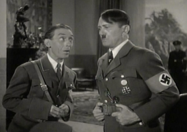 Charley Rogers (left) & Bobby Watson in Nazty Nuisance aka The Last Three aka Double Crossed Fool - cropped screenshot